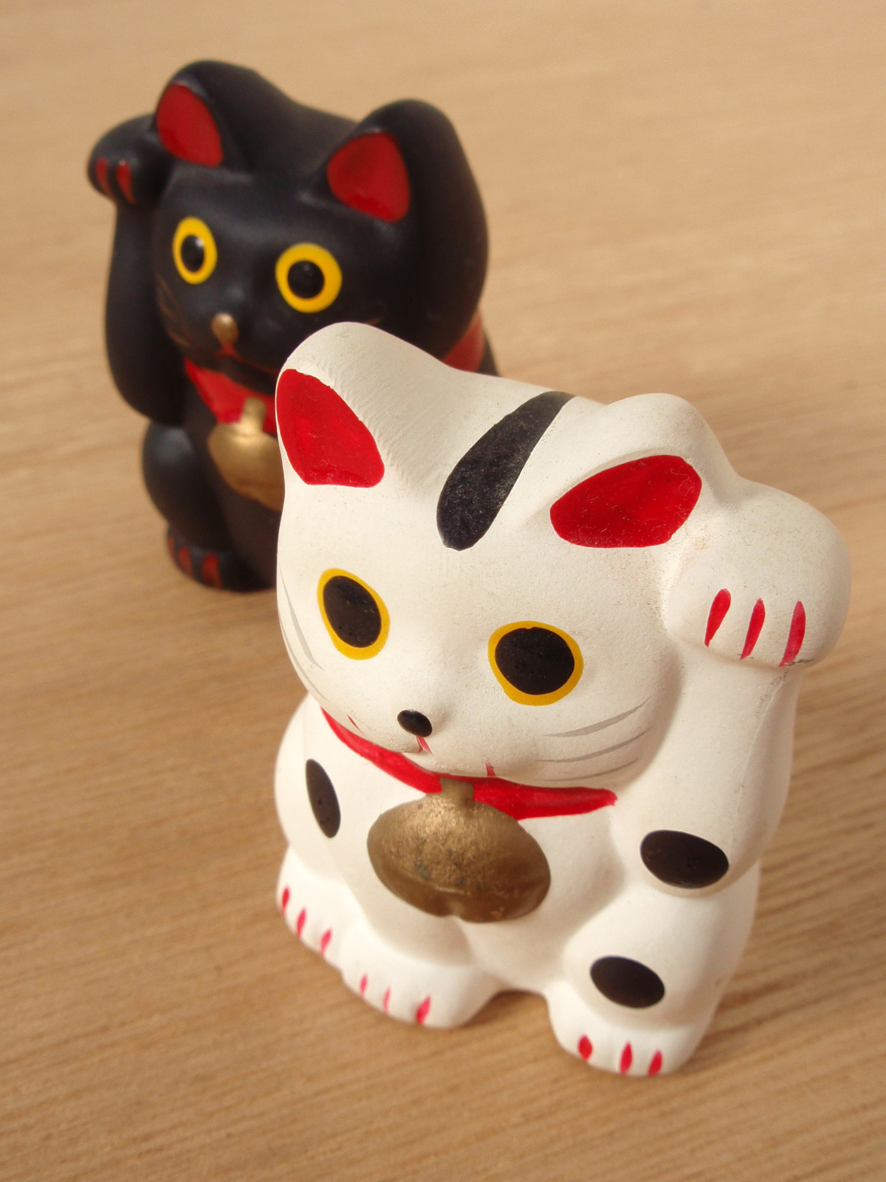 Maneki neko is a popular happy item in Japan.